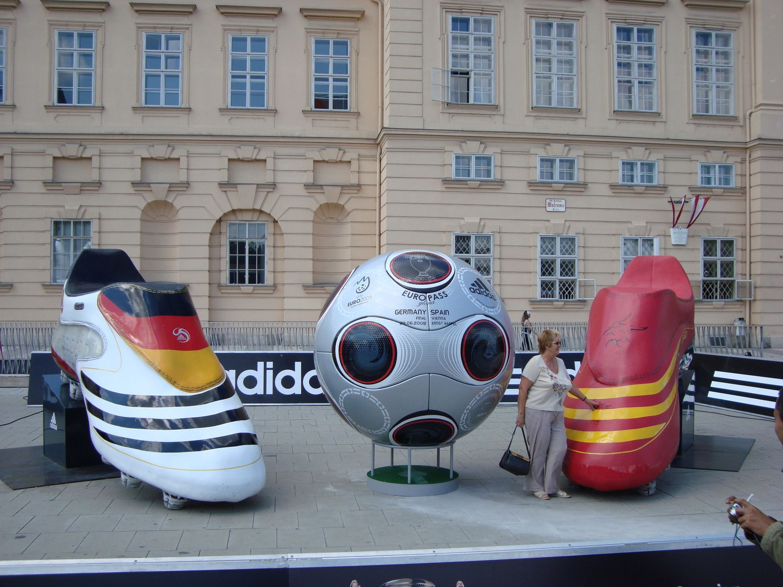 Finalist for Euro 2008 Germany & Spain